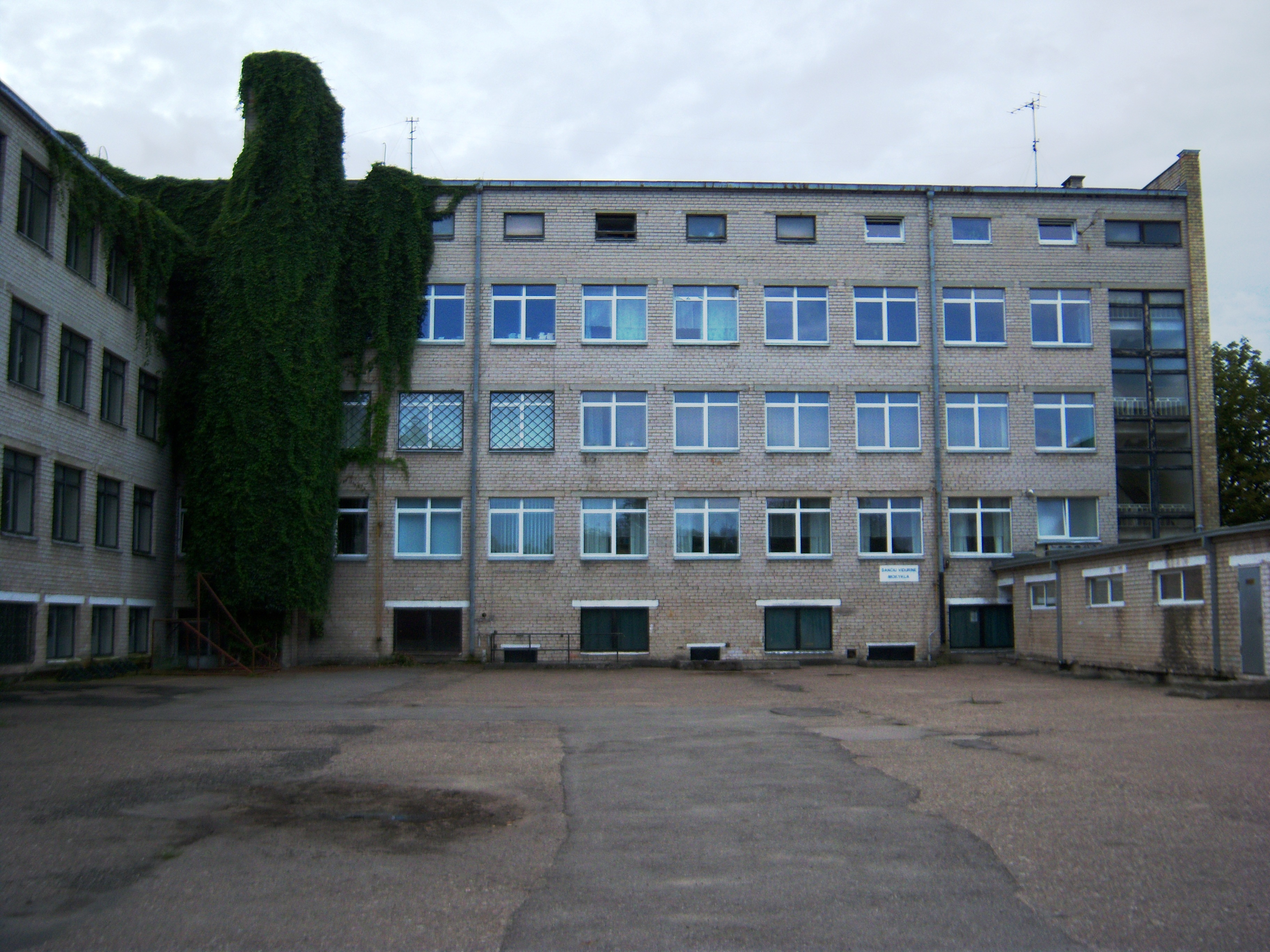 Secondary school, Šančiai, Kaunas, Lithuania